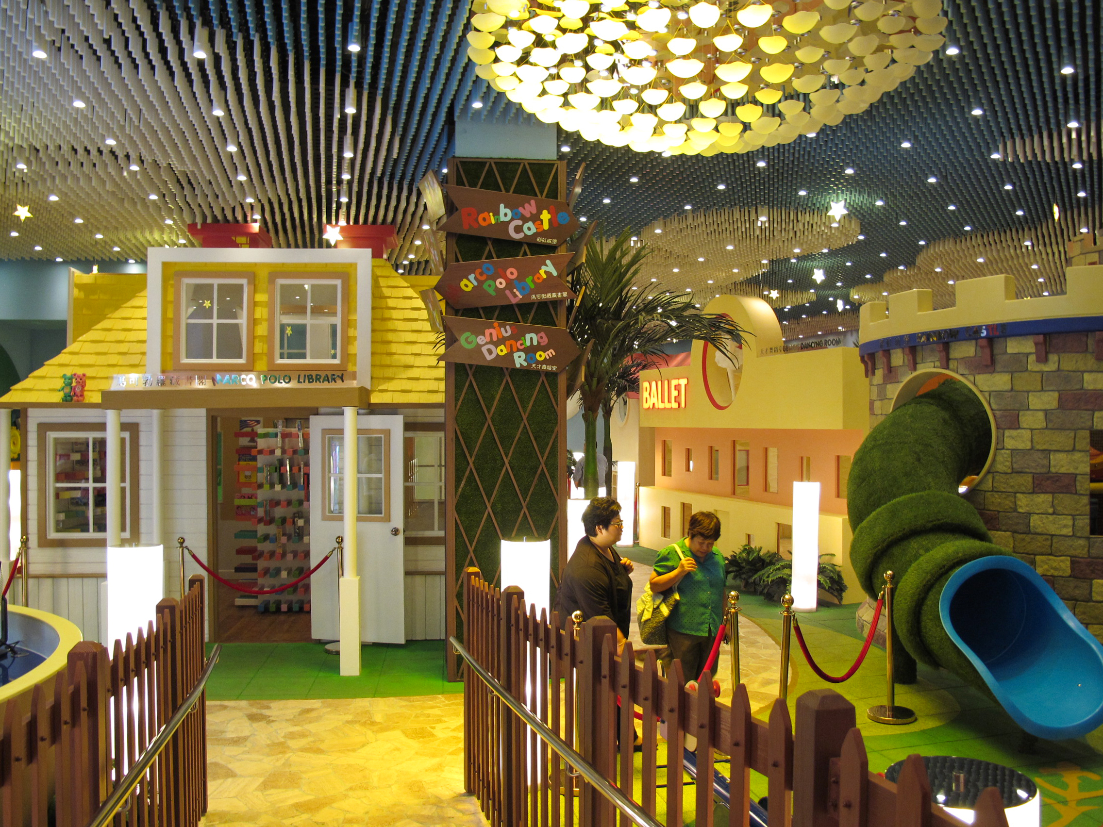 Uptown Club CASA Children Clubhouse